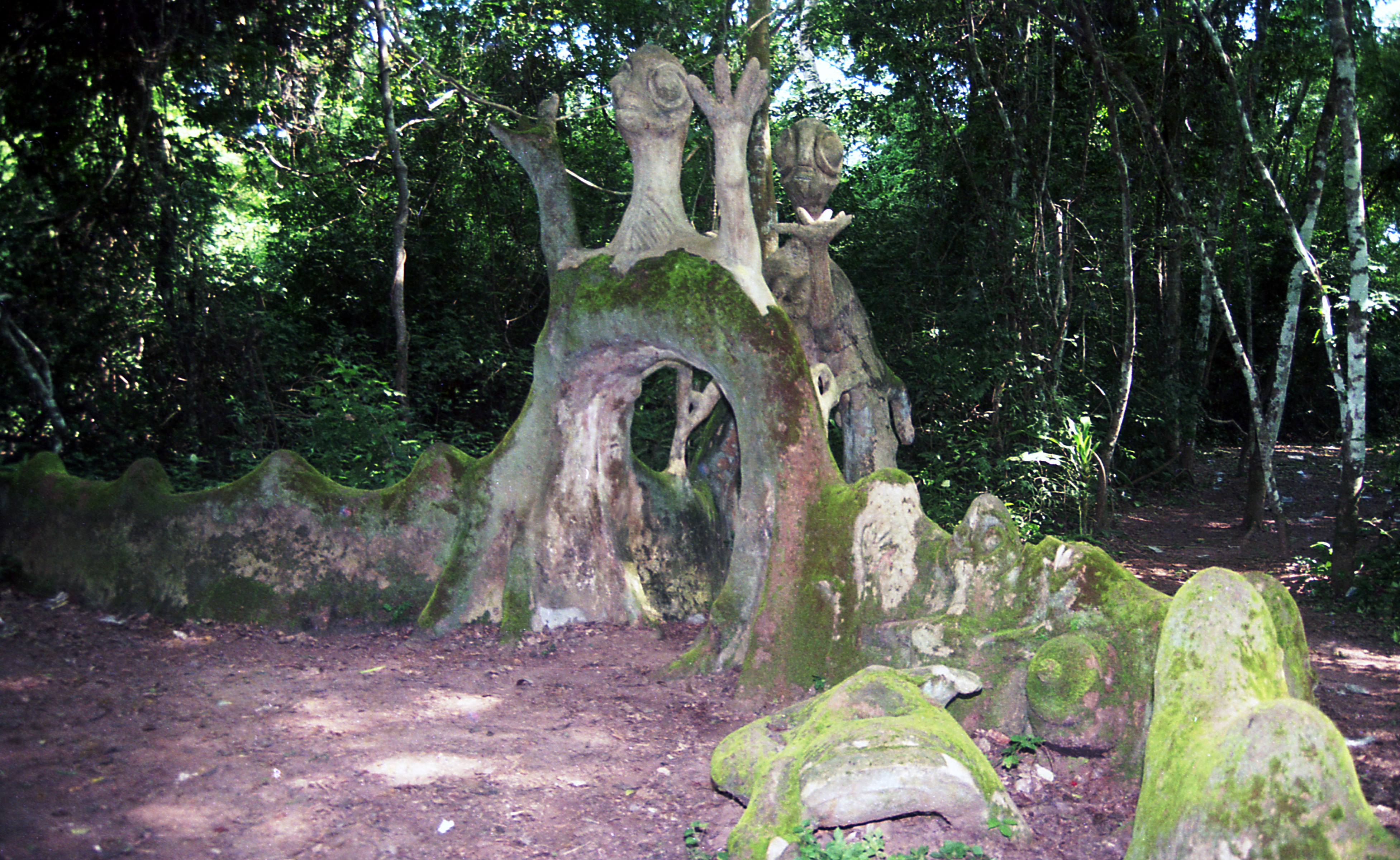 River-side Shrine and Sacred Grove Of Oshun